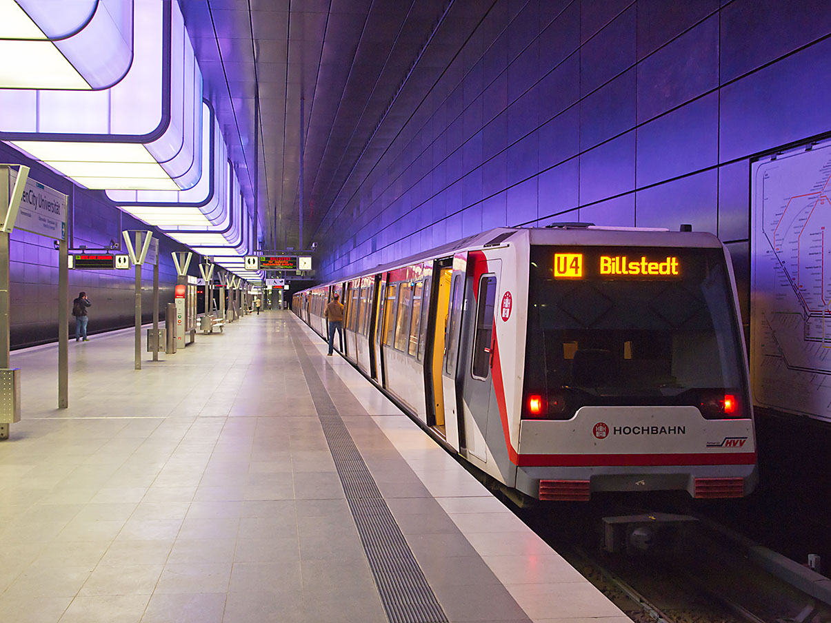 Train in the metro station HafenCity Universität, line U4, in Hamburg-HafenCity, Germany {O5113892-v3}